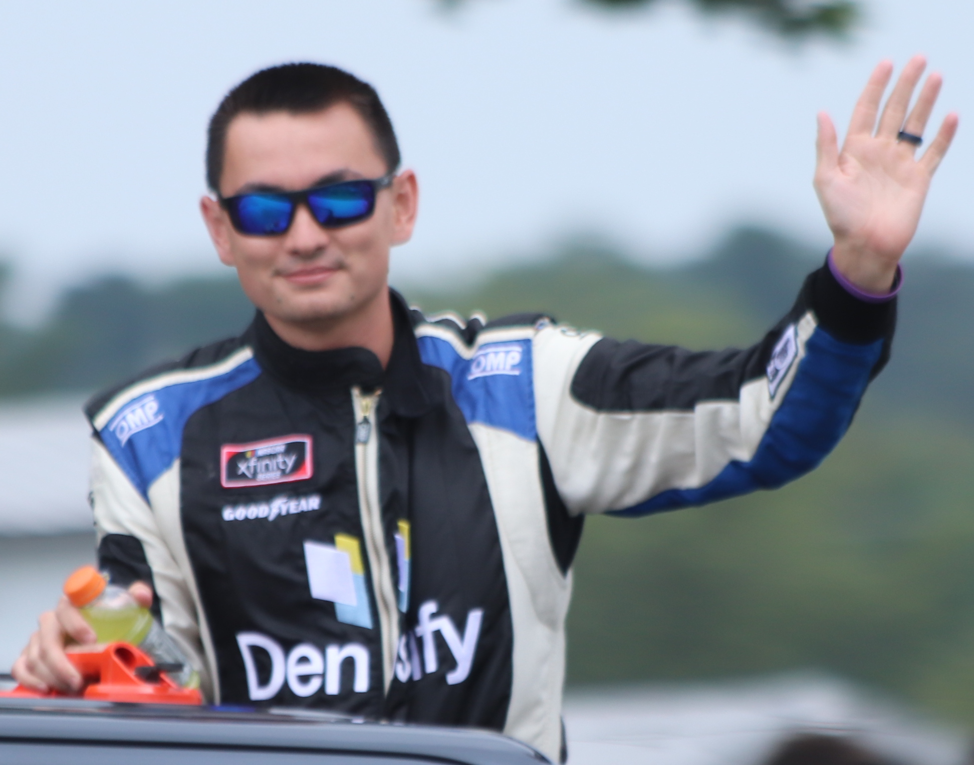 NASCAR Xfinity Series driver Ryan Ellis waves to fans at the 2018 Road America race.